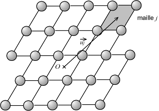 shape factor: interferences of waves scattered by several cells